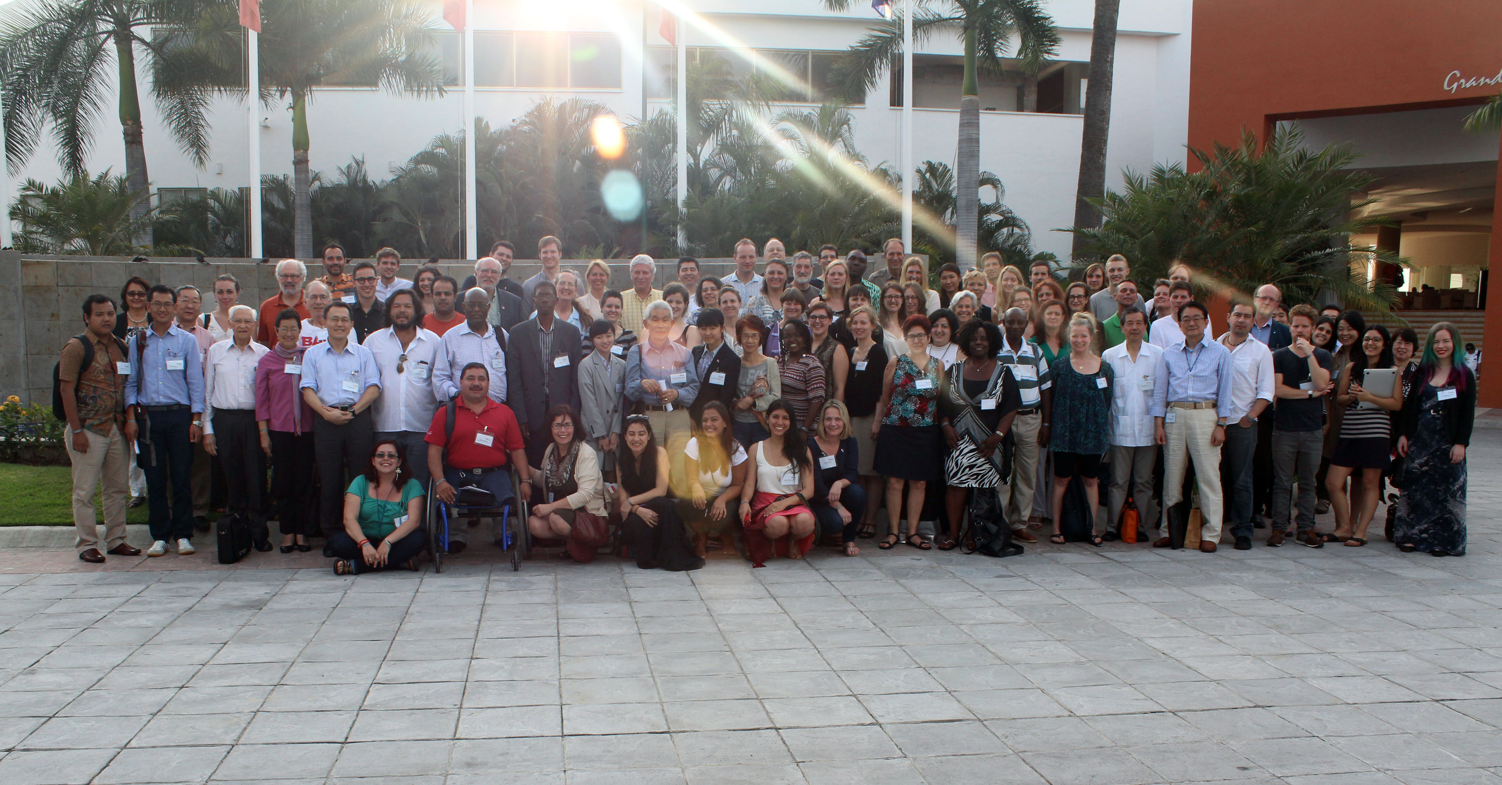 Representatives of the International Campaign to Abolish Nuclear Weapons meet in Nayarit, Mexico, for the Second Conference on the Humanitarian Impact of Nuclear Weapons, in February 2014